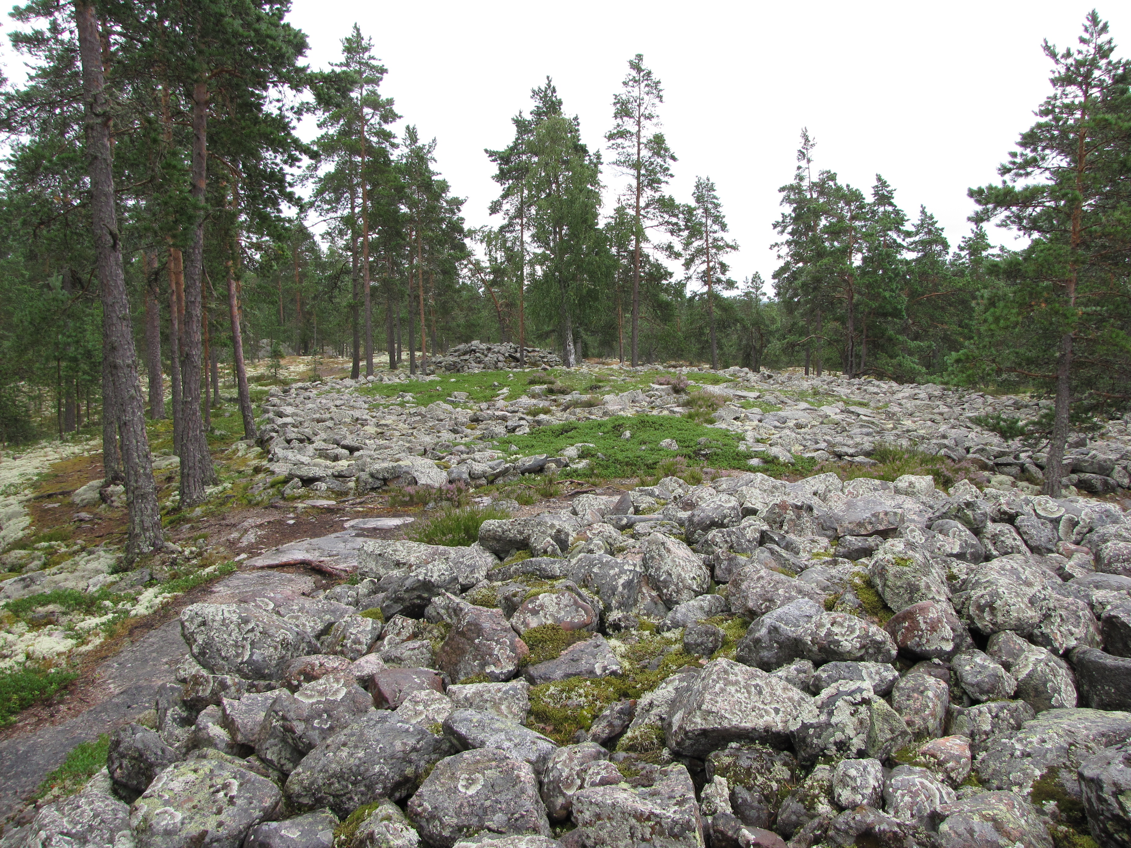 Sammallahdenmäki, a Bronze age burial site in Finland in Rauma municipality. It was designated by UNESCO as a World Heritage Site in 1999.